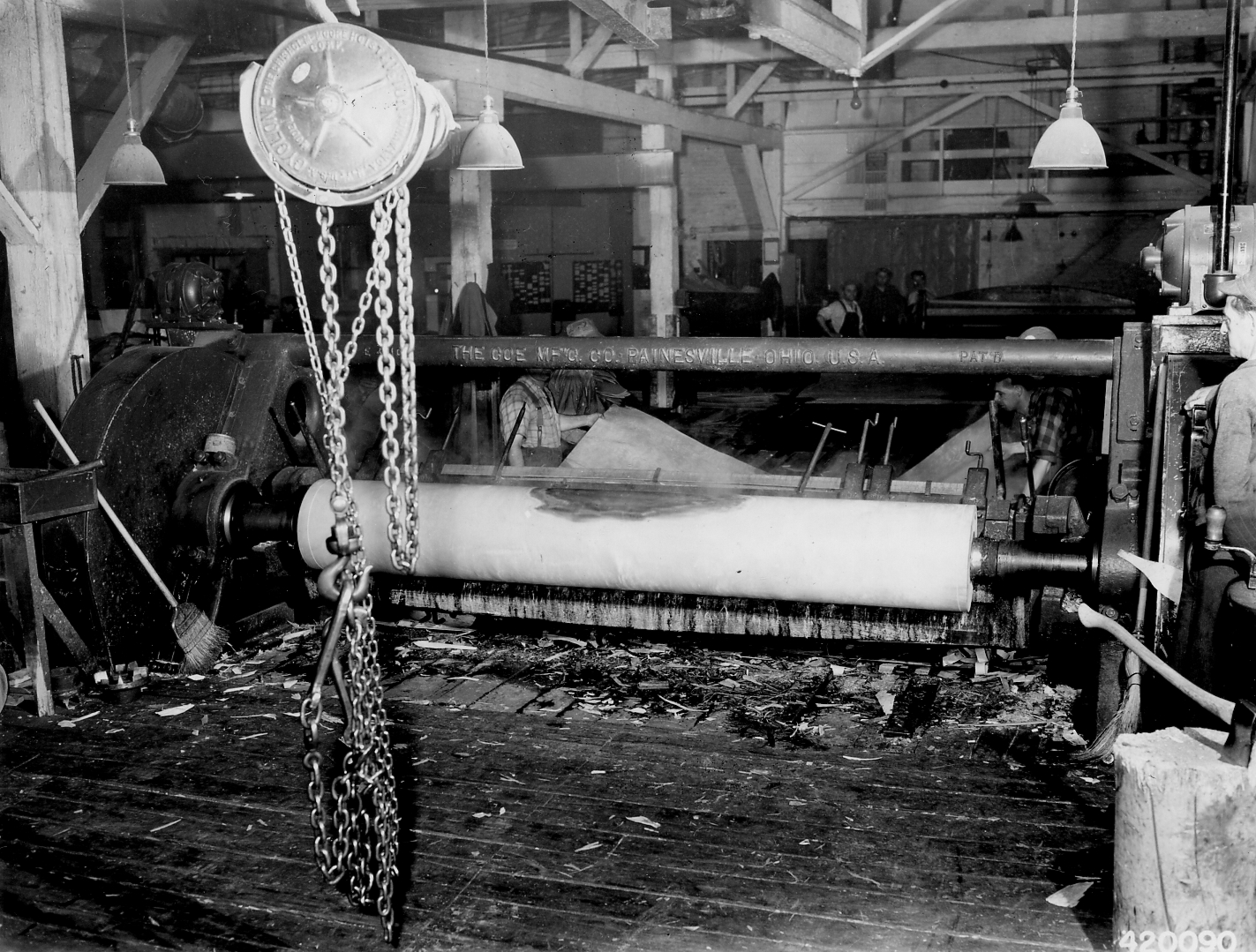 Scope and content: Original caption: Veneer being cut from 100" bolt on large veneer lathe.